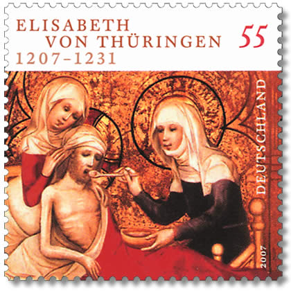 800th day of birth of Saint Elisabeth of Hungary (1207–1231) Ausgabepreis: 55 Cent